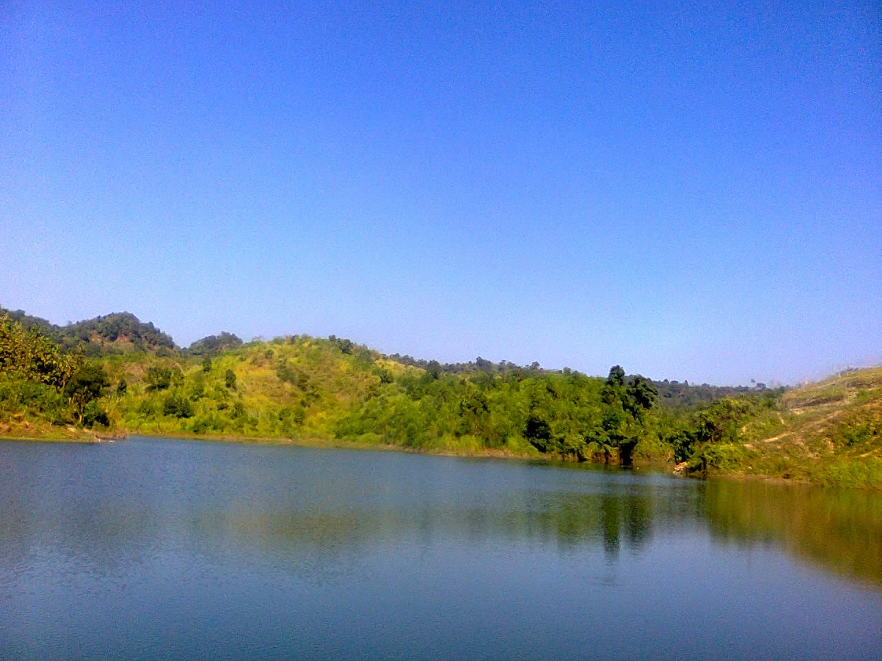 Mohamaya Lake, Mirsarai, Chittagong